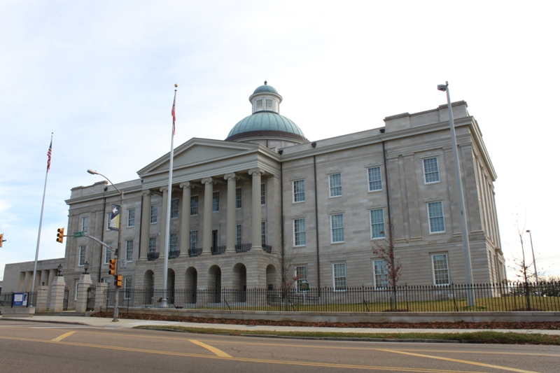 Old Mississippi State Capitol in Jackson